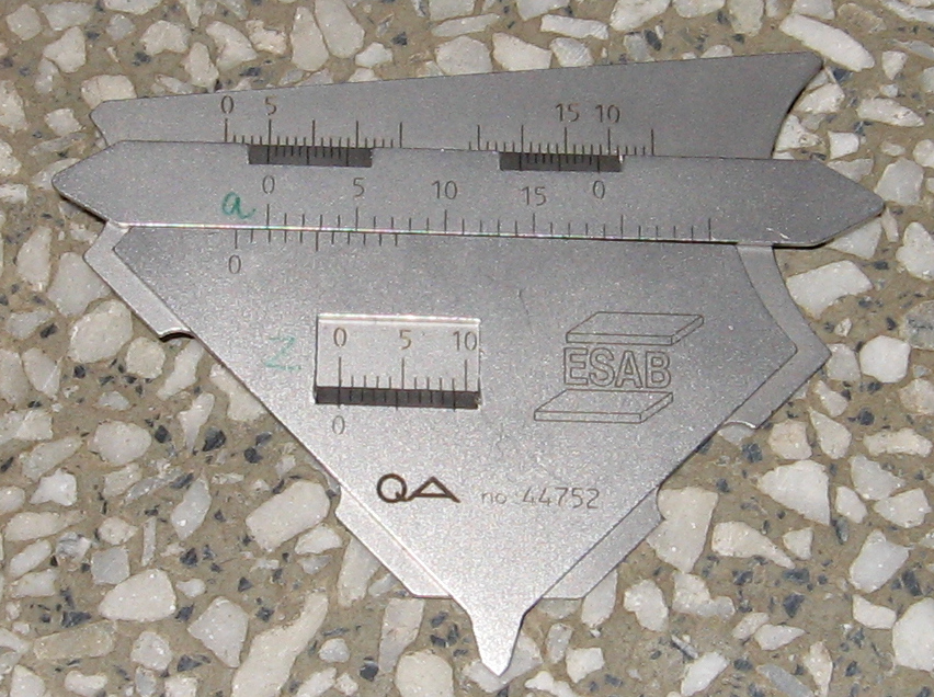 Weld gauge